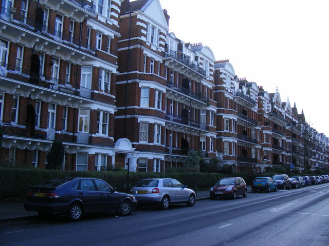 Mansion blocks Prince of Wales Drive